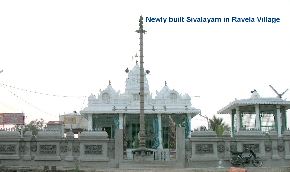 Newly Built Sivalayam in Ravela